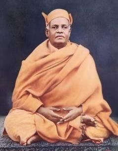 Swami Saradananda, the direct monastic disciple of Ramakrishna Paramahansa